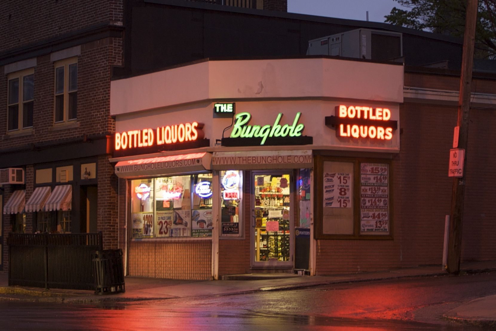 The Bunghole liquor store in Salem, Massachusetts